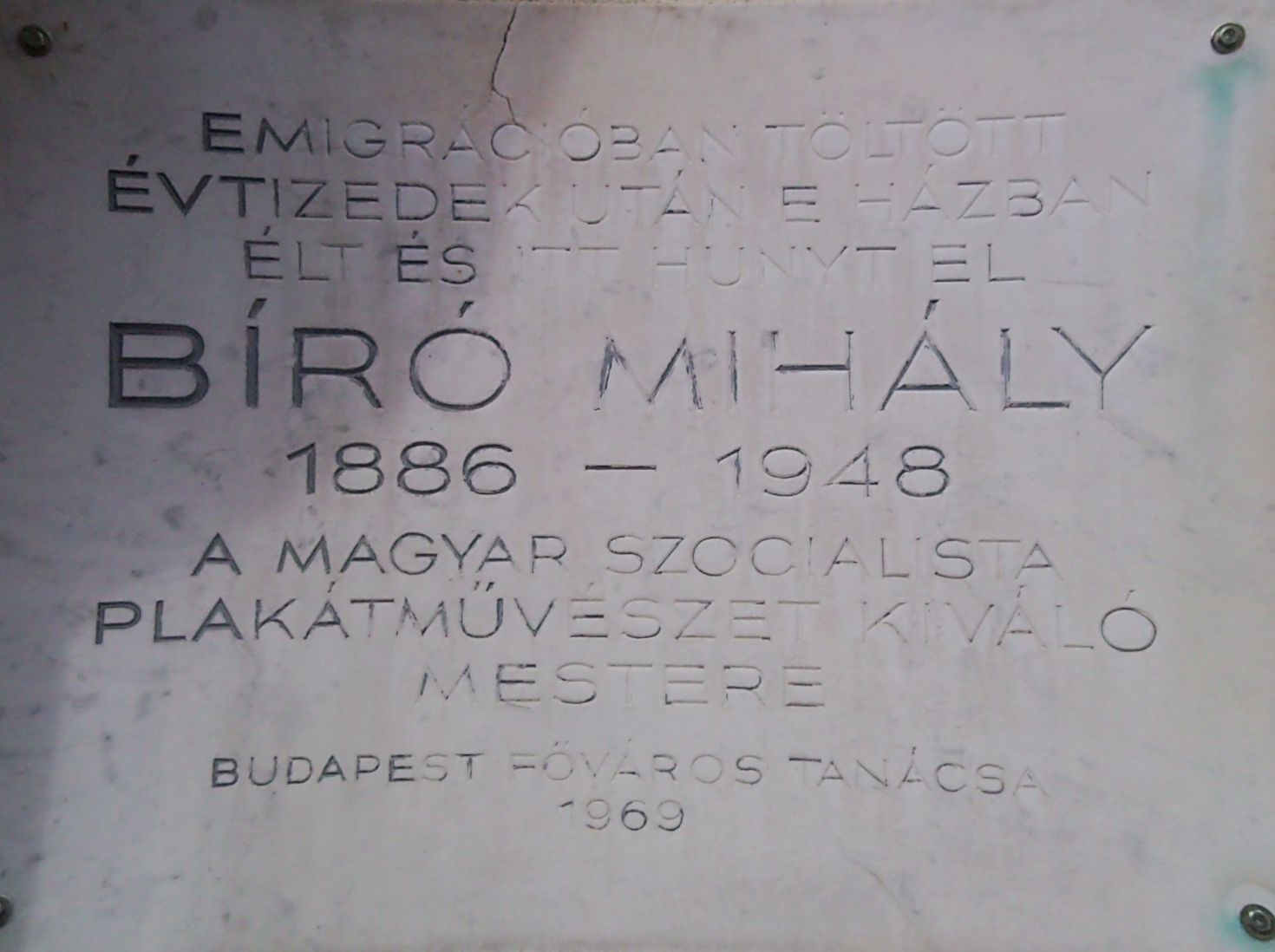 Commemorative plaque of the painter Mihály Bíró, Budapest District XII, Melinda Street No 16